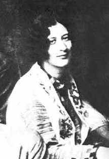 Simone Weil (1909–1943) – a French philosopher, Christian mystic and political activist of Jewish origin.